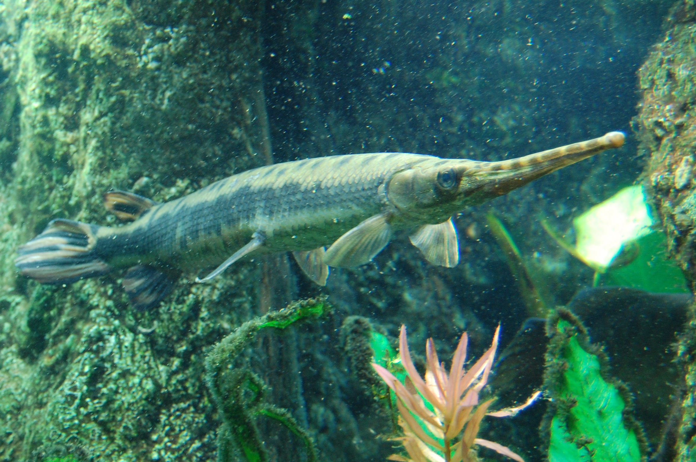 Longnose gar (Lepisosteus osseus) at the New England Aquarium, Boston MA.